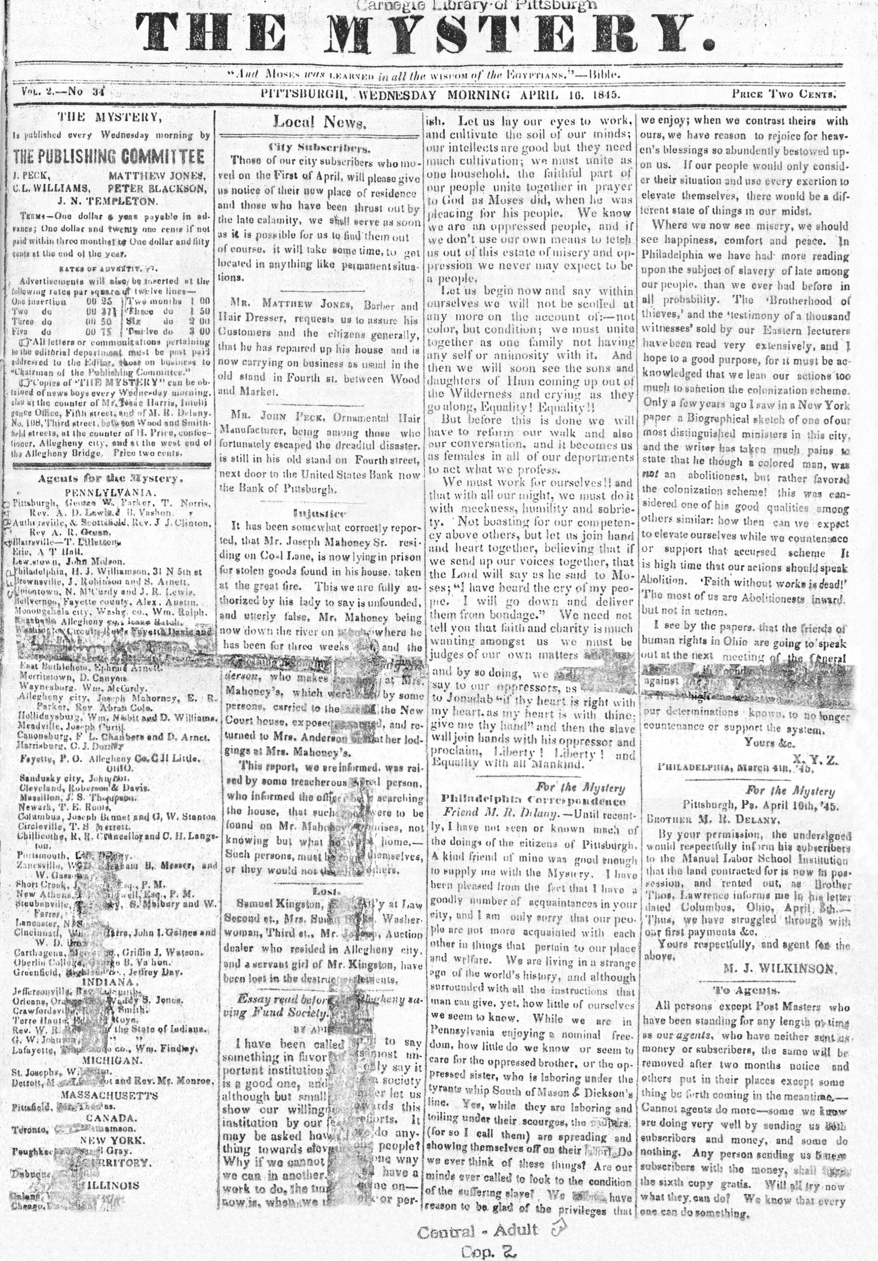 Front page of the April 16, 1845 issue of The Mystery, the first African-American newspaper published in Pennsylvania.